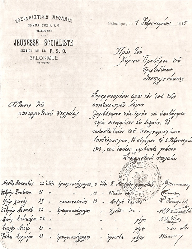 Socialist Workers' Federation, political party founded in 1909 in Ottoman Thessaloniki, called Federacion (Φεντερασιόν) in Greek. The document with which the party is asking for recognition of the socialist youth.